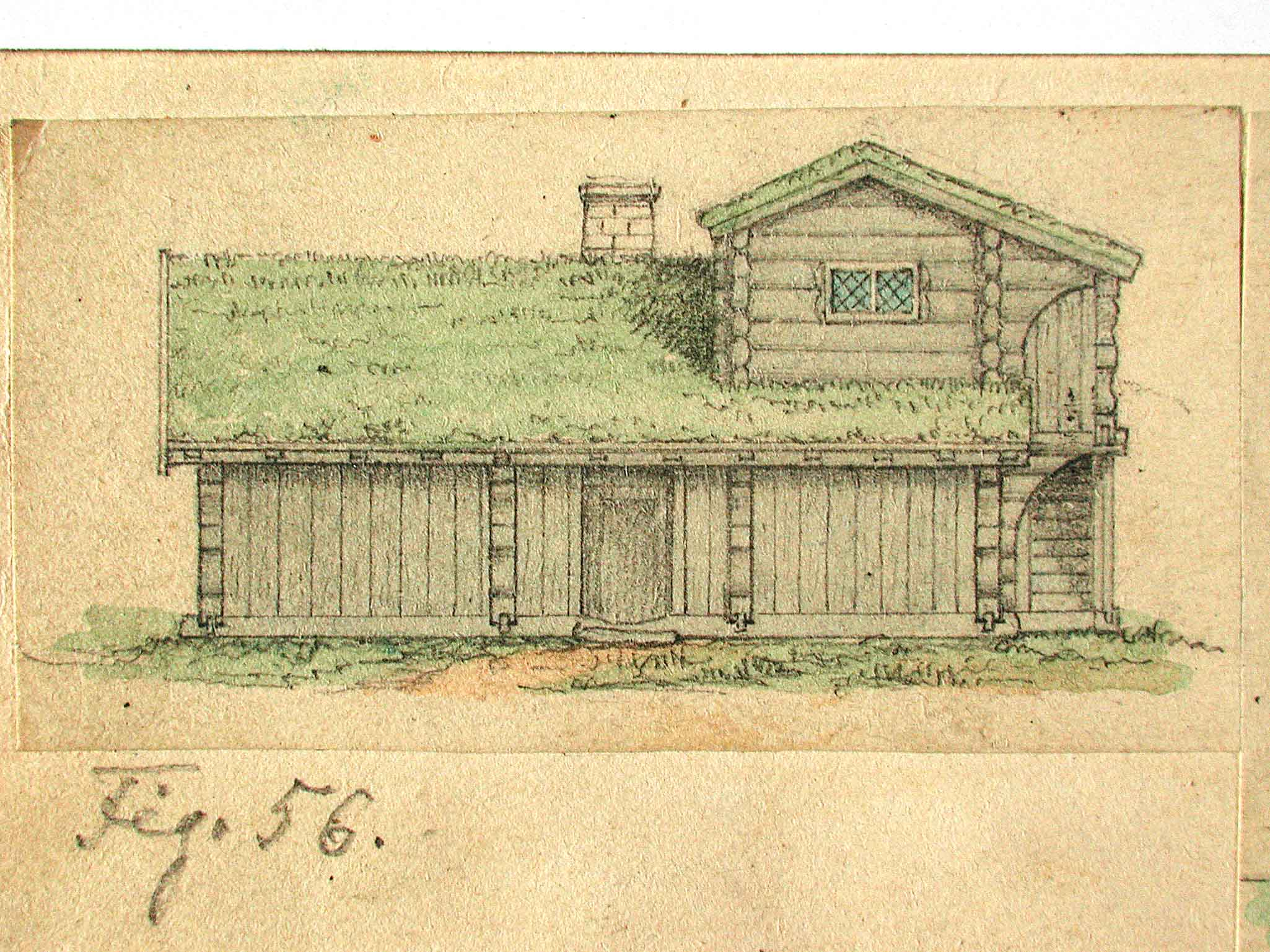 Picture drawn by Nils Månsson Mandelgren himself in the 19th century.